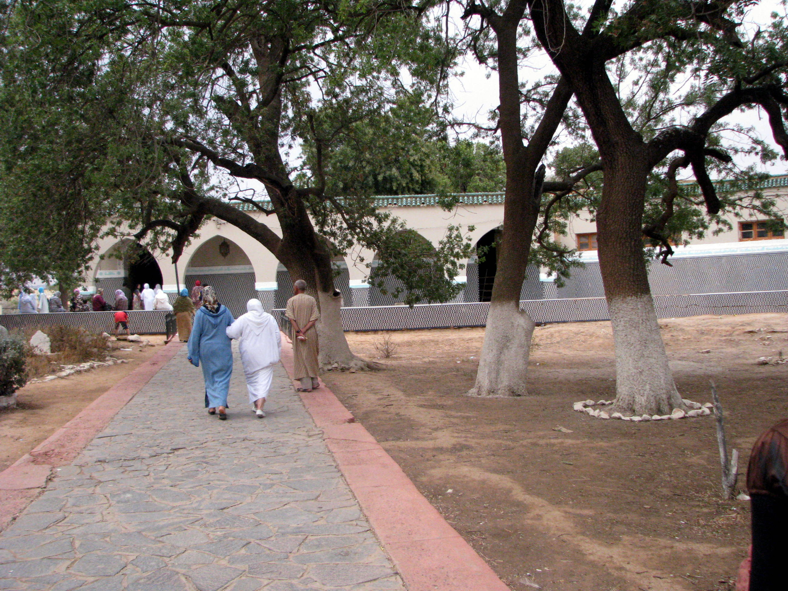 Mosolé sidi Yahya